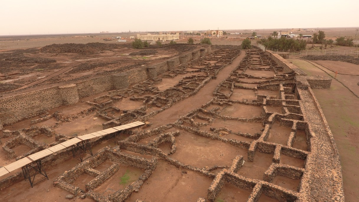 اثار درب زبيدة